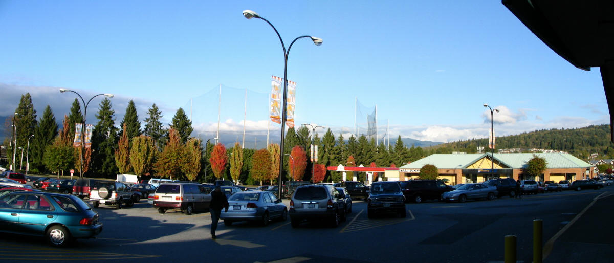 Kensington Square, Burnaby, BC, Canada